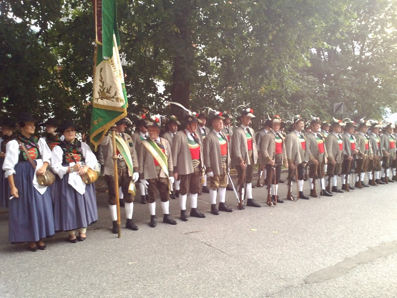 Tirol Day at European Forum Alpbach 2013